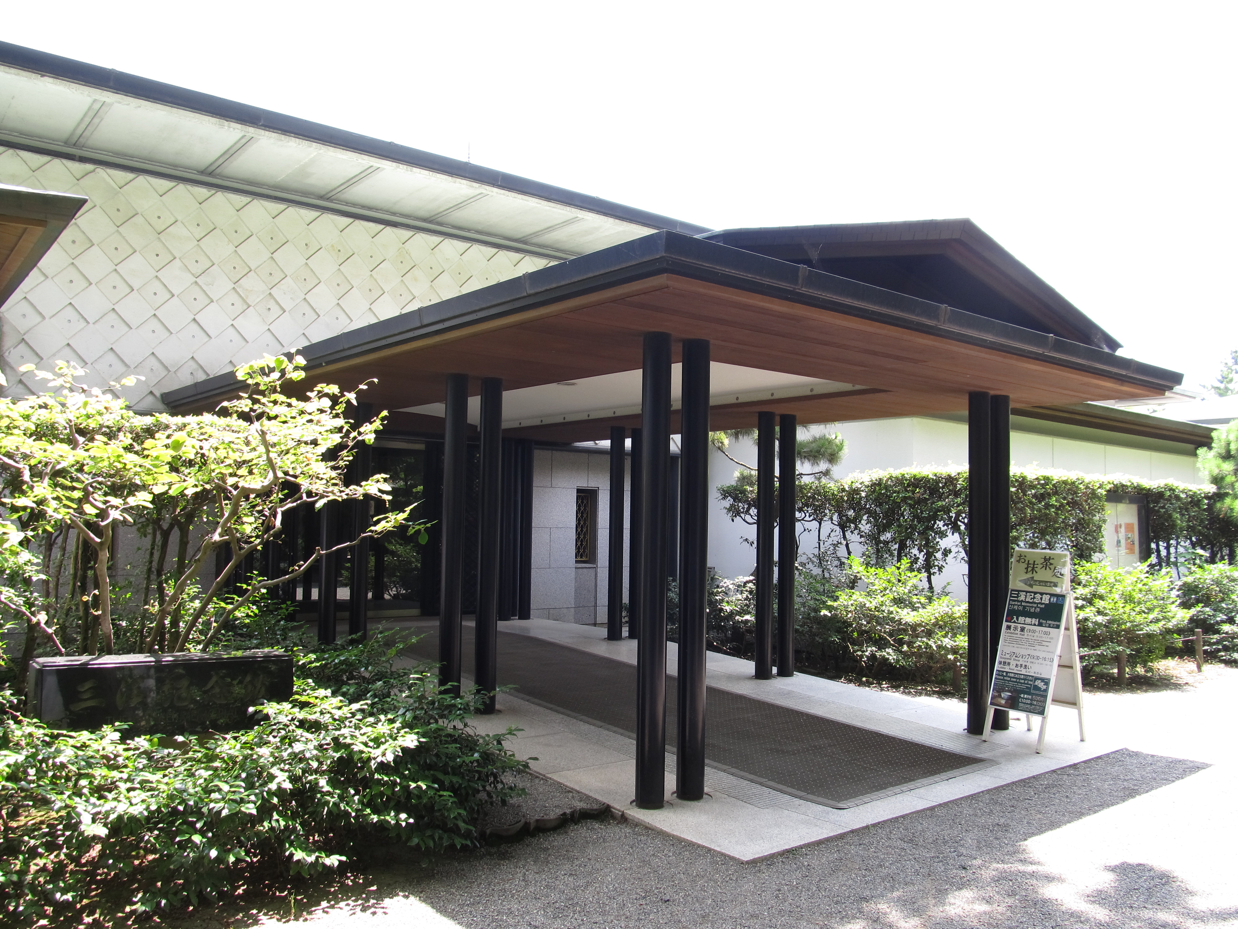 Sankei Memorial Hall is museum in Sankeien Garden at Honmoku-sannotani, Naka-ku, Yokohama city, Kanagawa prefecture, Japan.